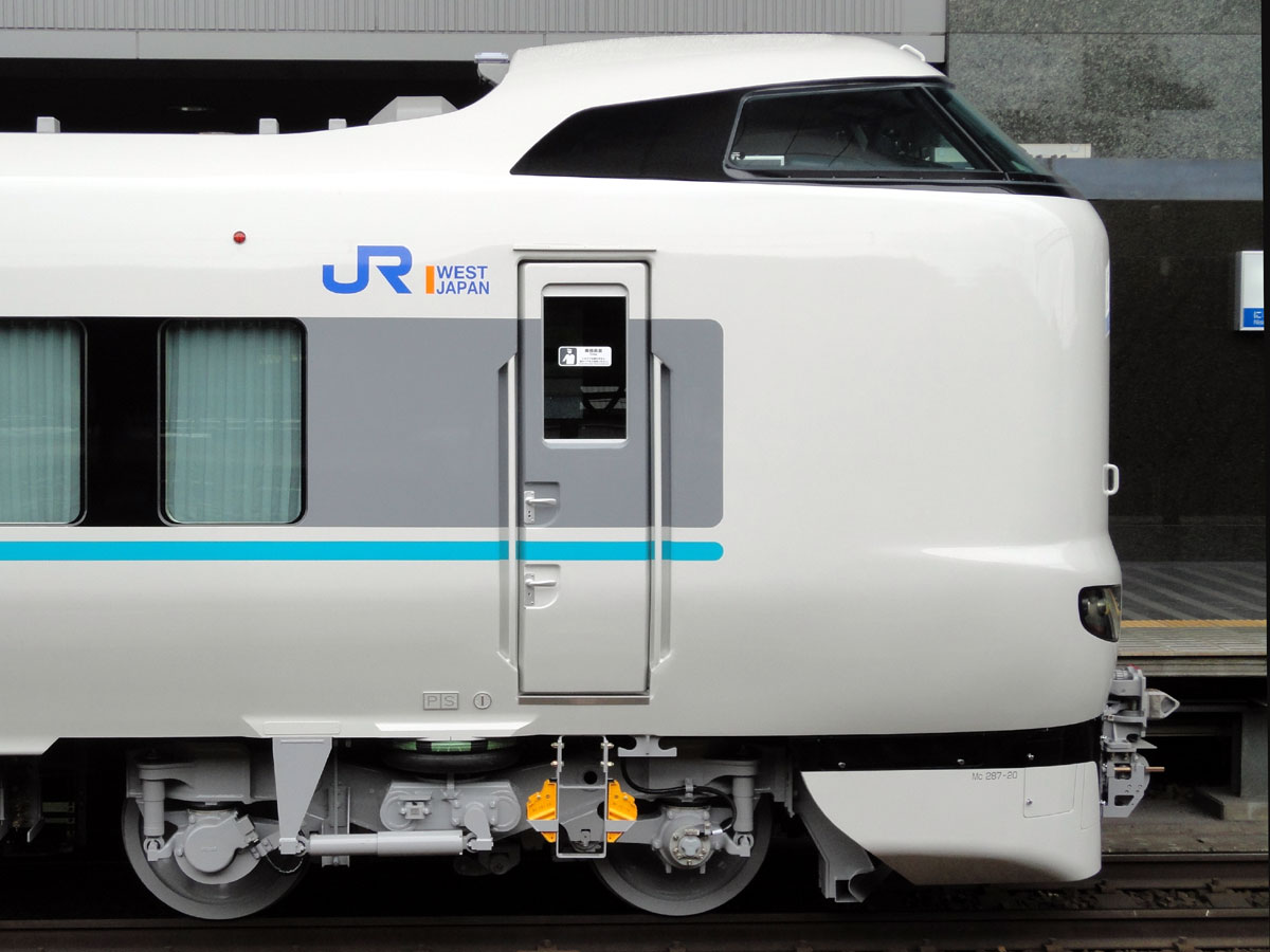 A JR West 287 series EMU on a Kuroshio limited express service (car KuMoHa 287-20 of six-car set HC605)